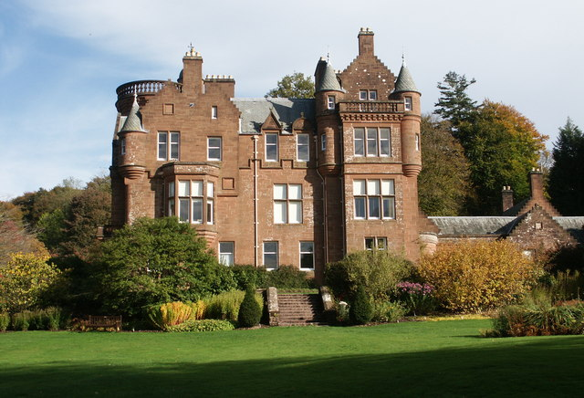 Threave House, Threave Gardens, Castle Douglas No longer a private residence.